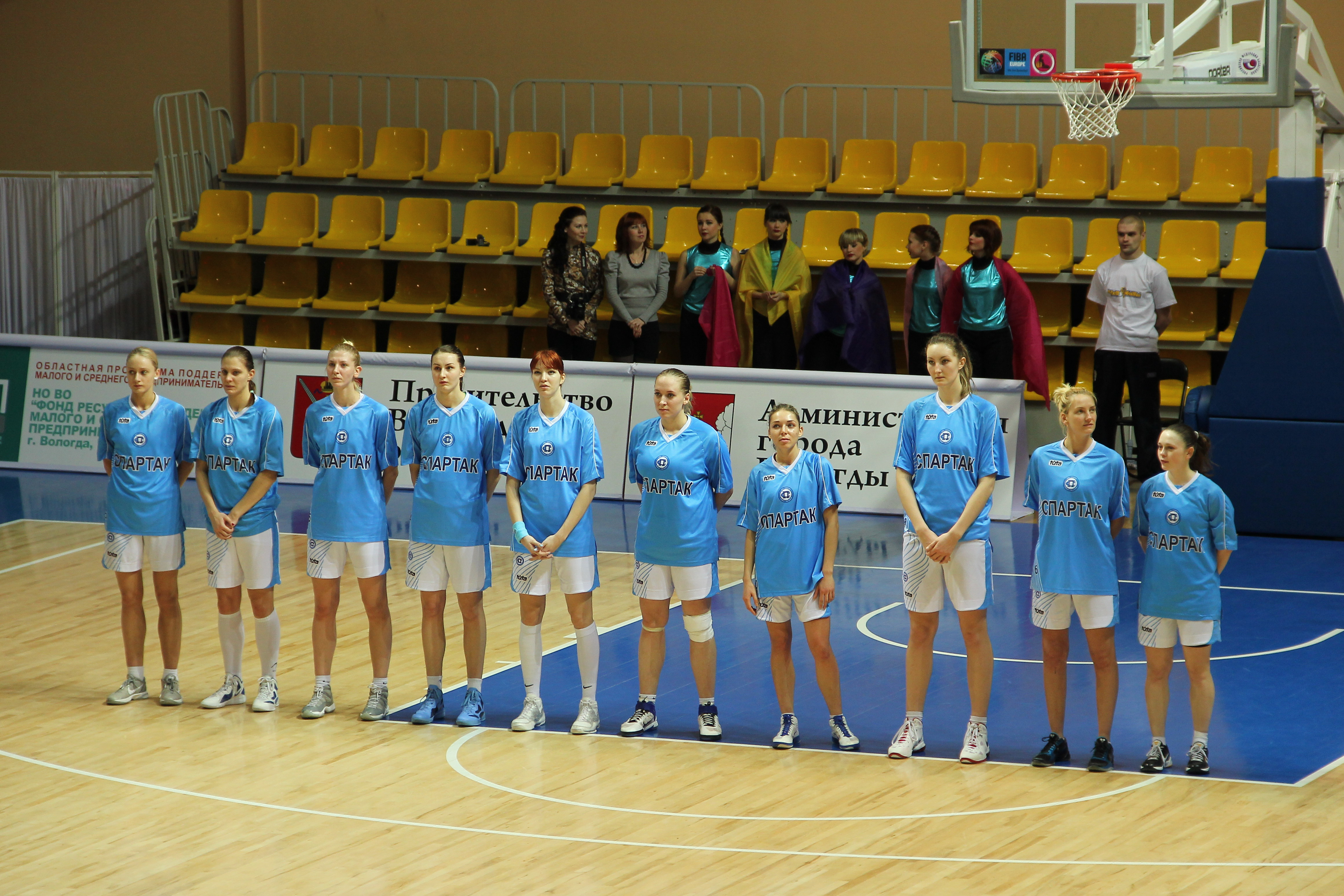 Russia, Women's basketball club «Spartak» (Saint Petersburg)